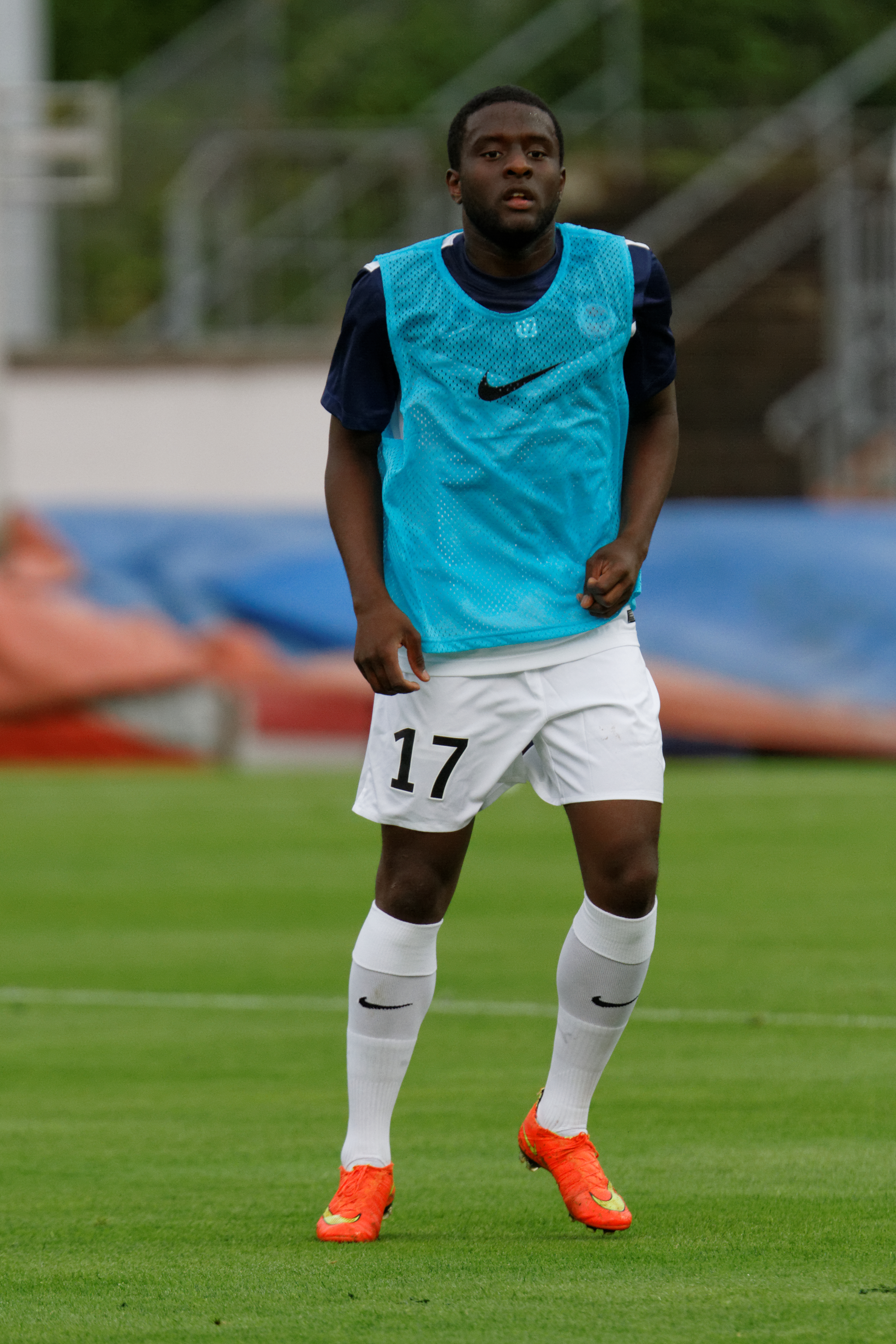 Créteil vs Châteauroux, 8th August 2014.